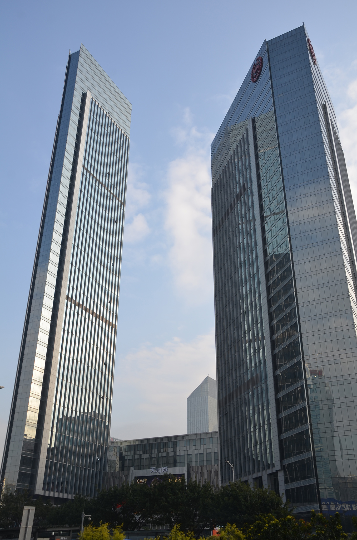 Teemall Tower